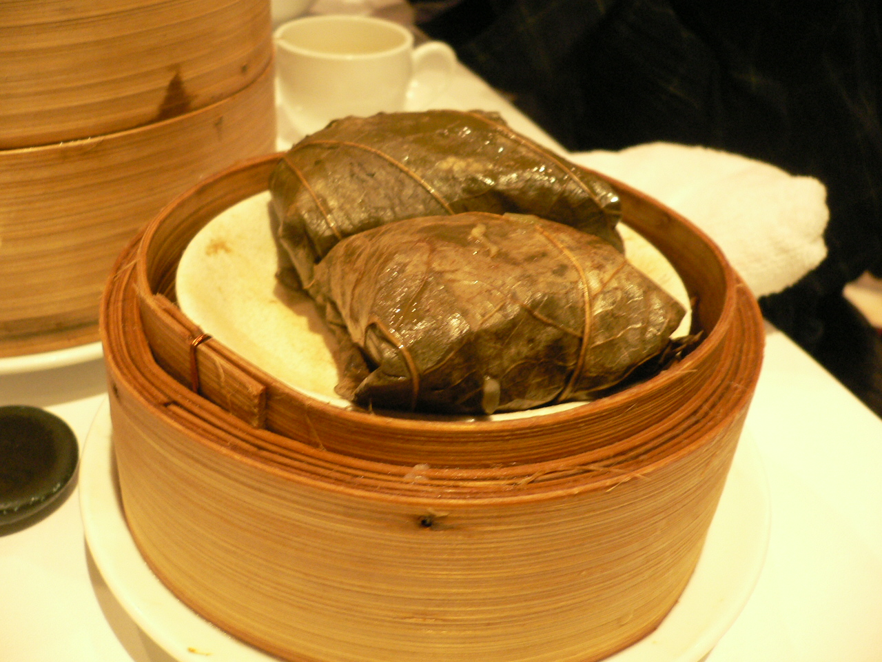 珍珠雞, or a kind of steamed dim sum with glutinous rice, pork, etc. wrapped in lotus leaf.